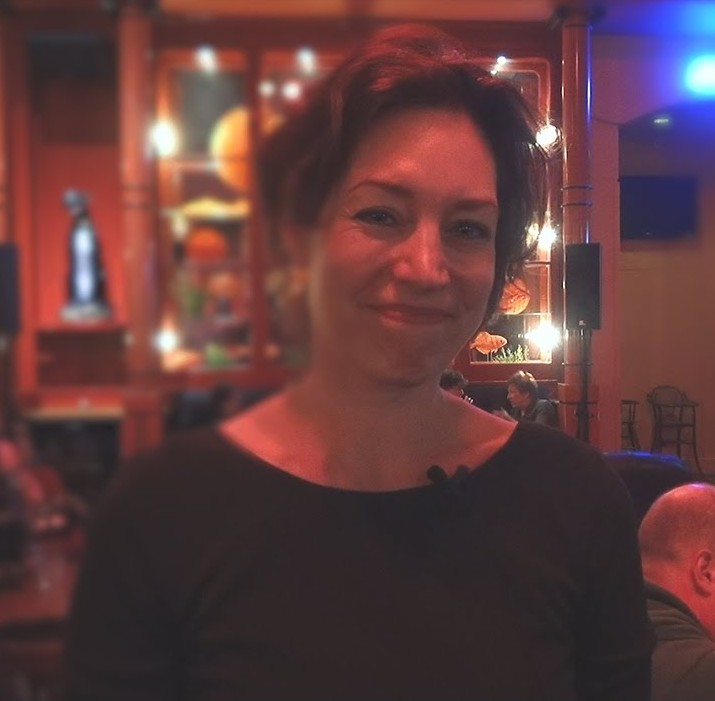 writer from Kingdom of the Netherlands